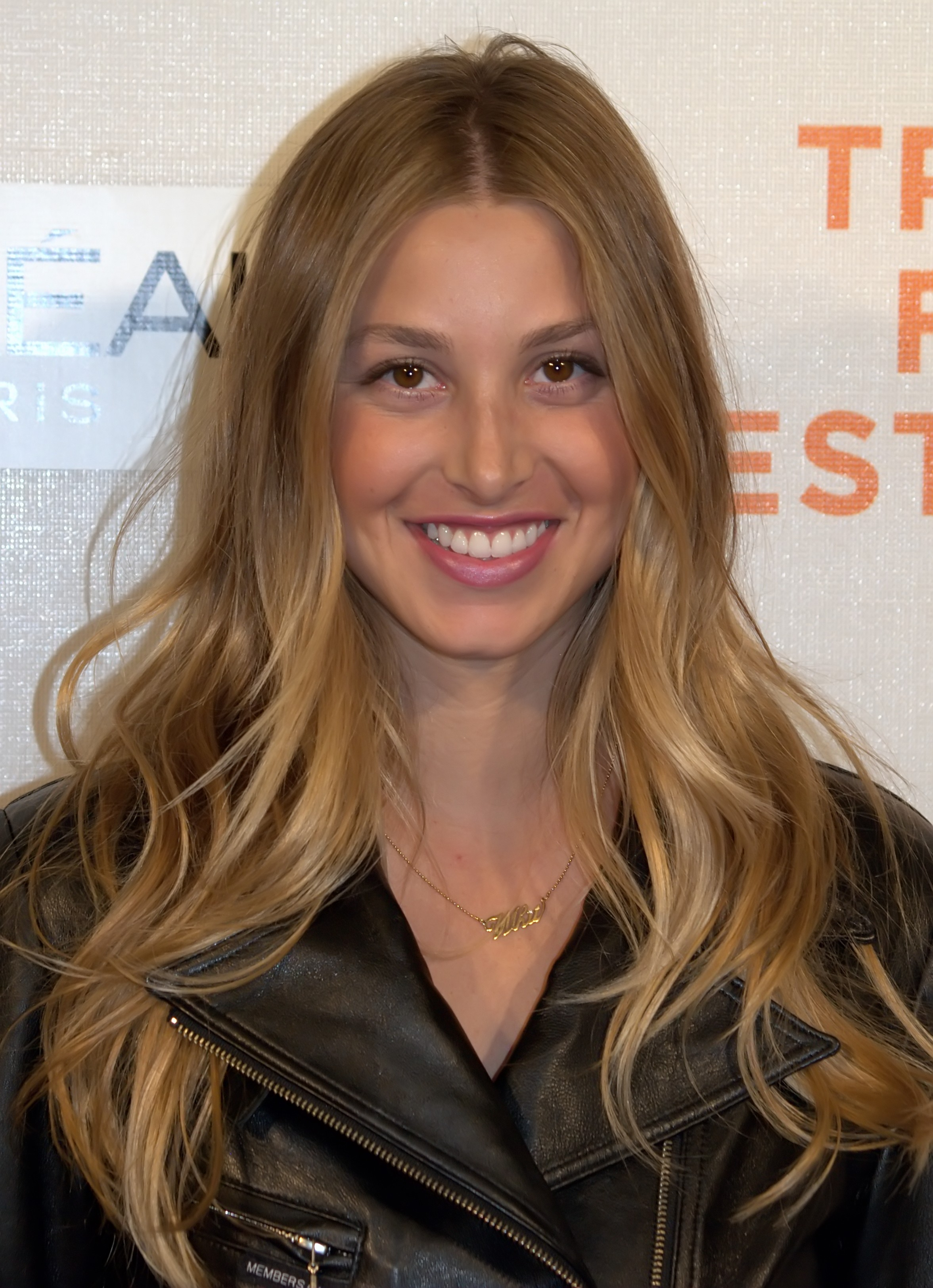 Whitney Port at the 2009 Tribeca Film Festival premiere of Don McKay.